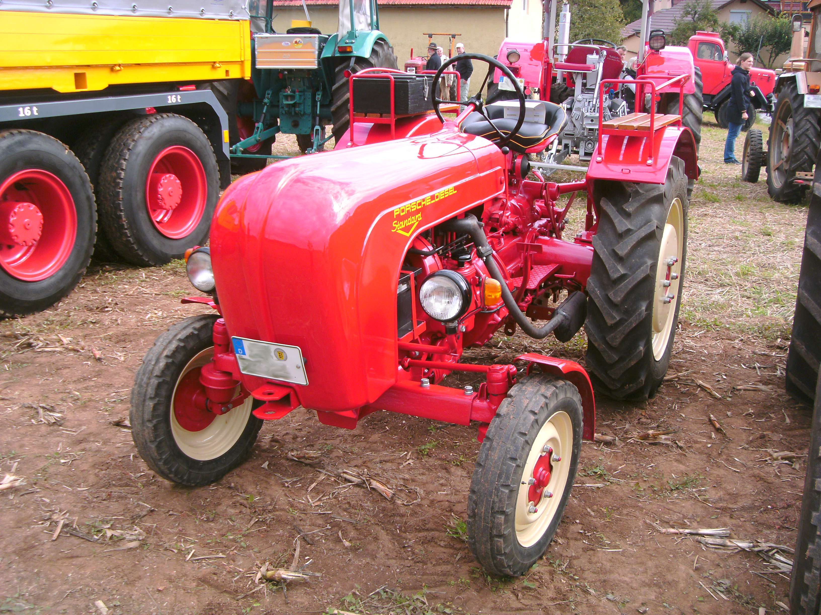 Porsche Diesel Standard V, manufactured 1959, 25 hp